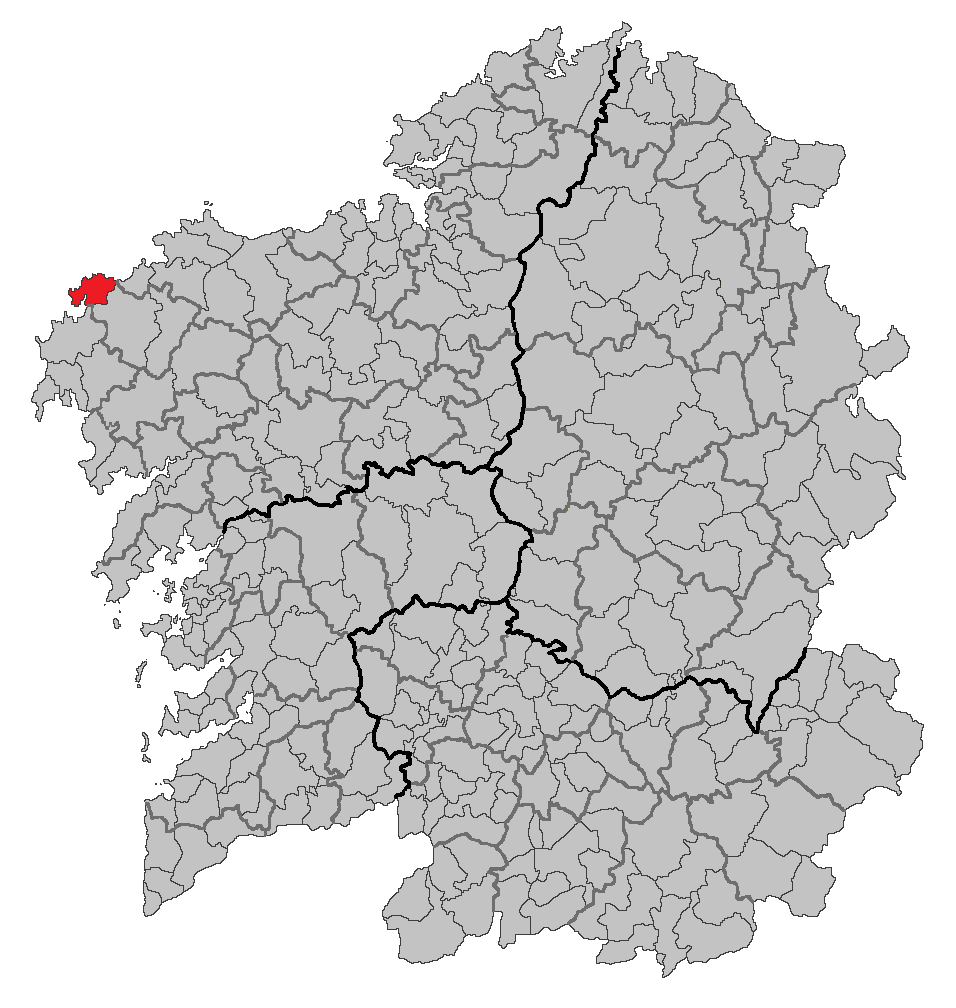 Location map of Camariñas, A Coruña, Galicia